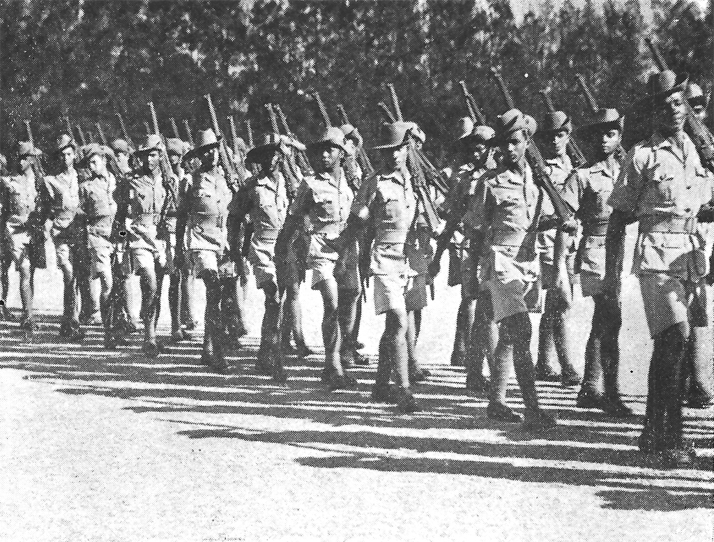 Men of the Coloured Mechanical Transport Company of the Southern Rhodesian forces pass out in Salisbury in 1940. These men, of Indian or mixed descent, went on to serve as drivers in East Africa.